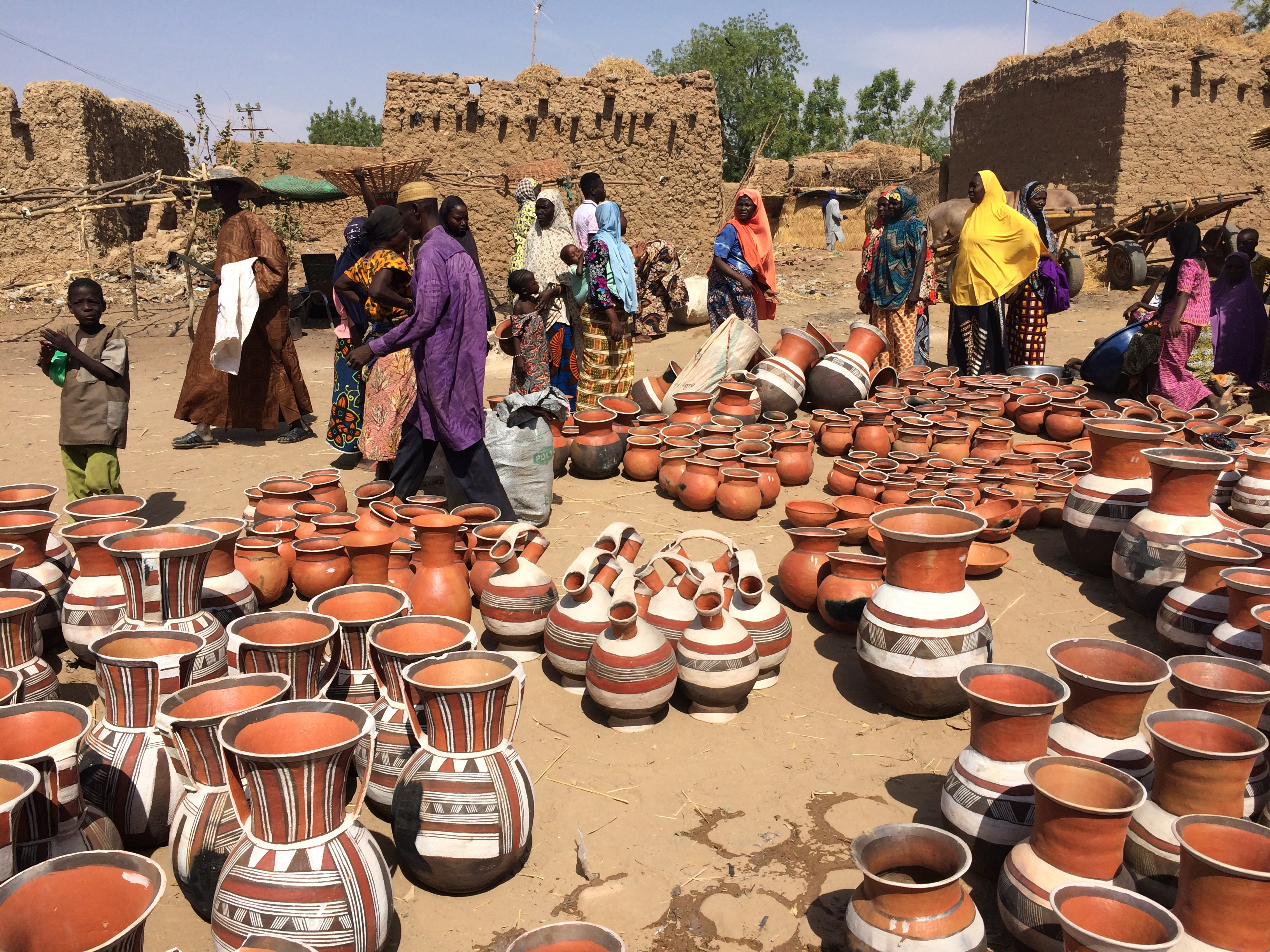 The pottery section in Wednesday's weekly market in Boubon, Niger (about 25 km northwest of Niamey).